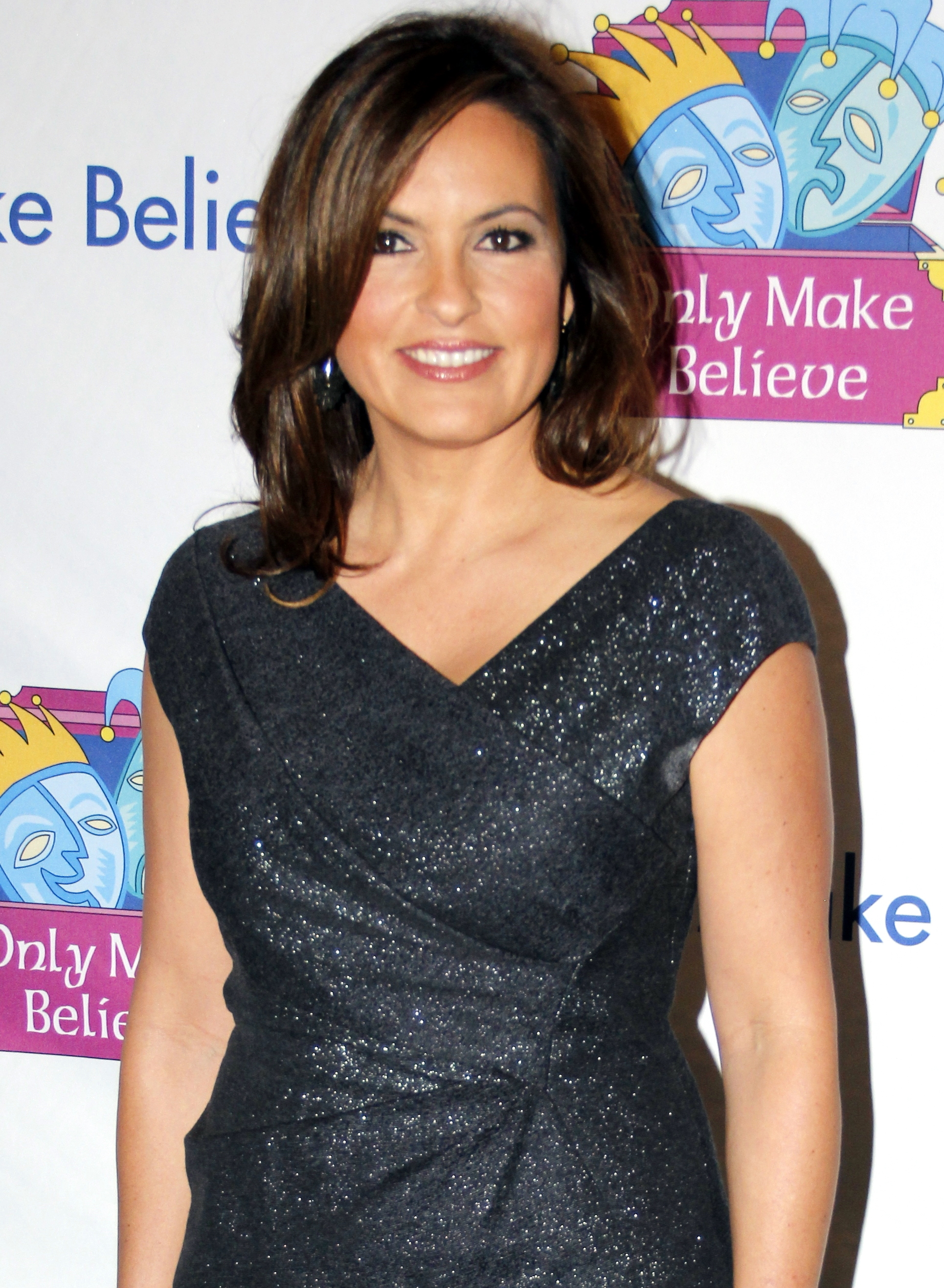 Mariska Hargitay at the Make Believe On Broadway 2011, New York City.